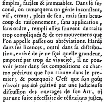 Critic by C. Paillasson of the taste of the writing master Alexandre (+ 1738) from Mercure de France, febr. 1754.